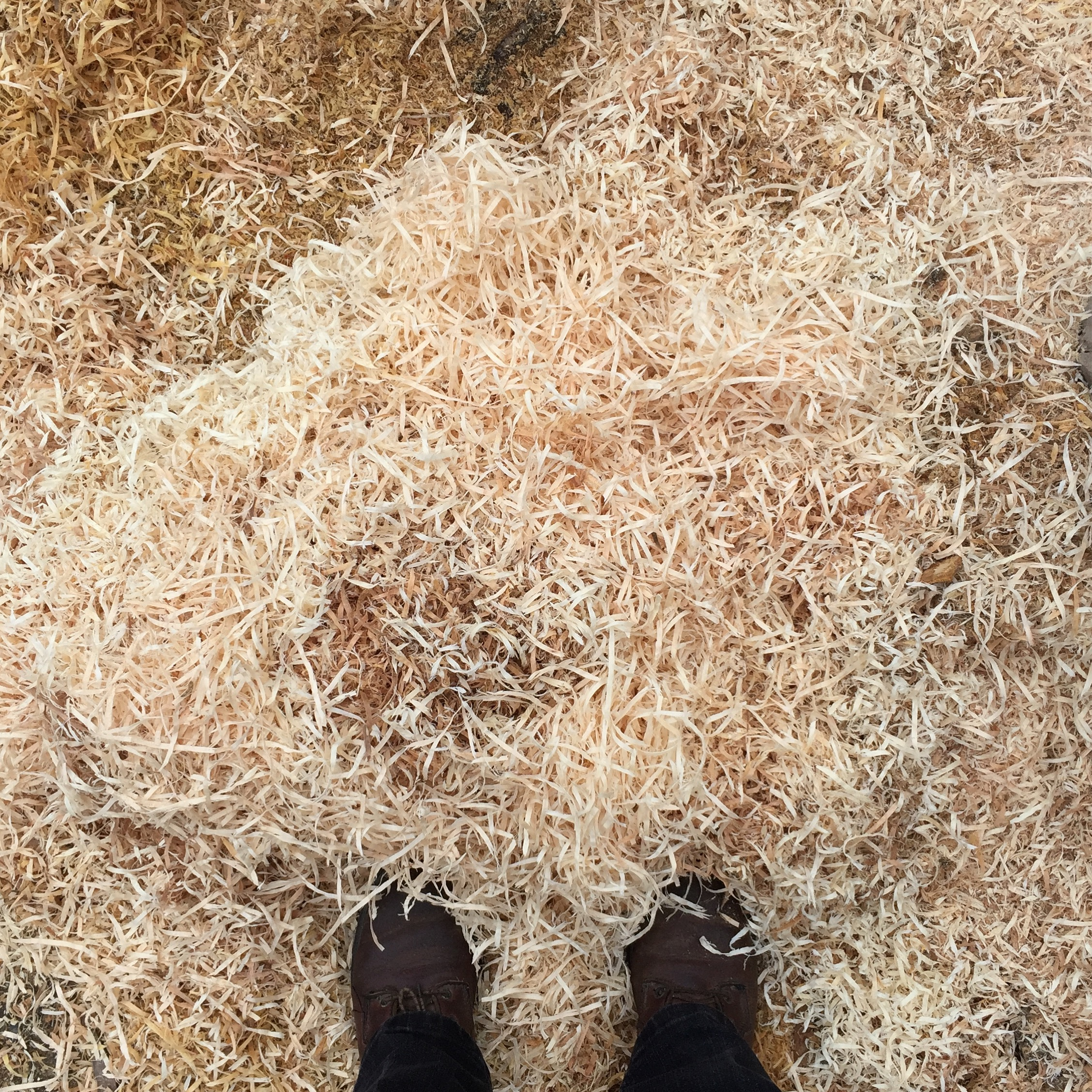 Wood shavings at my feet after chainsawing logs to prepare for woodturning blanks.